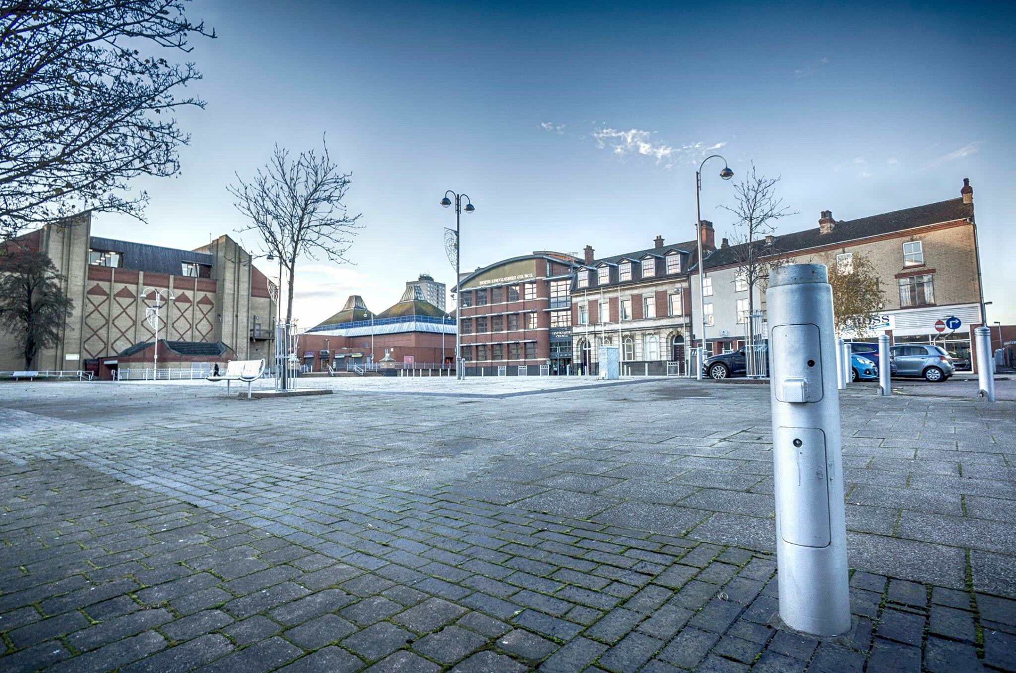 Church Square Scunthorpe